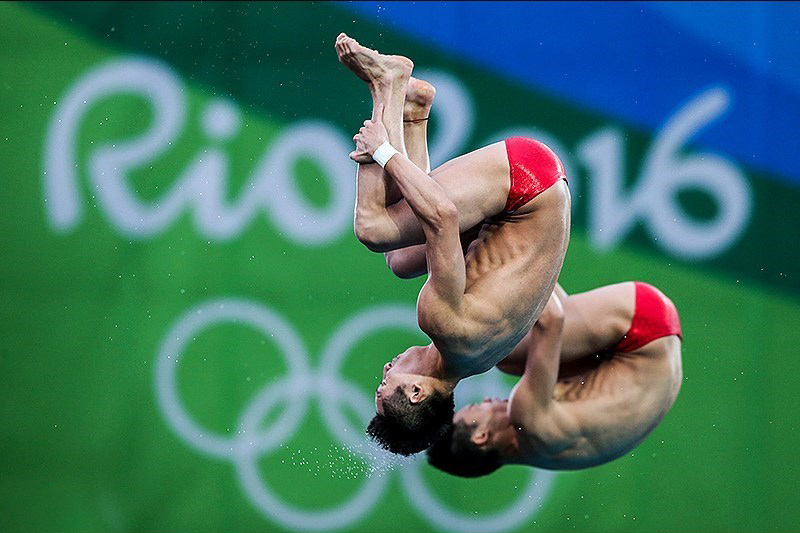 Diving at the 2016 Summer Olympics – Men's synchronized 10 metre platform - Chinese pair Chen Aisen and Lin Yue